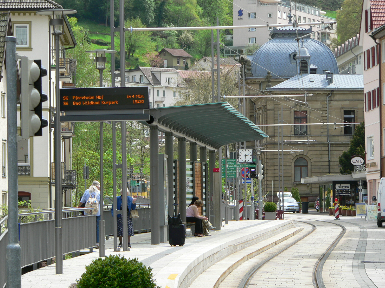 Enztalbahn, a railway line from Pforzheim to Bad Wildbad, Germany. Station Bad Wildbad Uhlandplatz/Sommerbergbahn